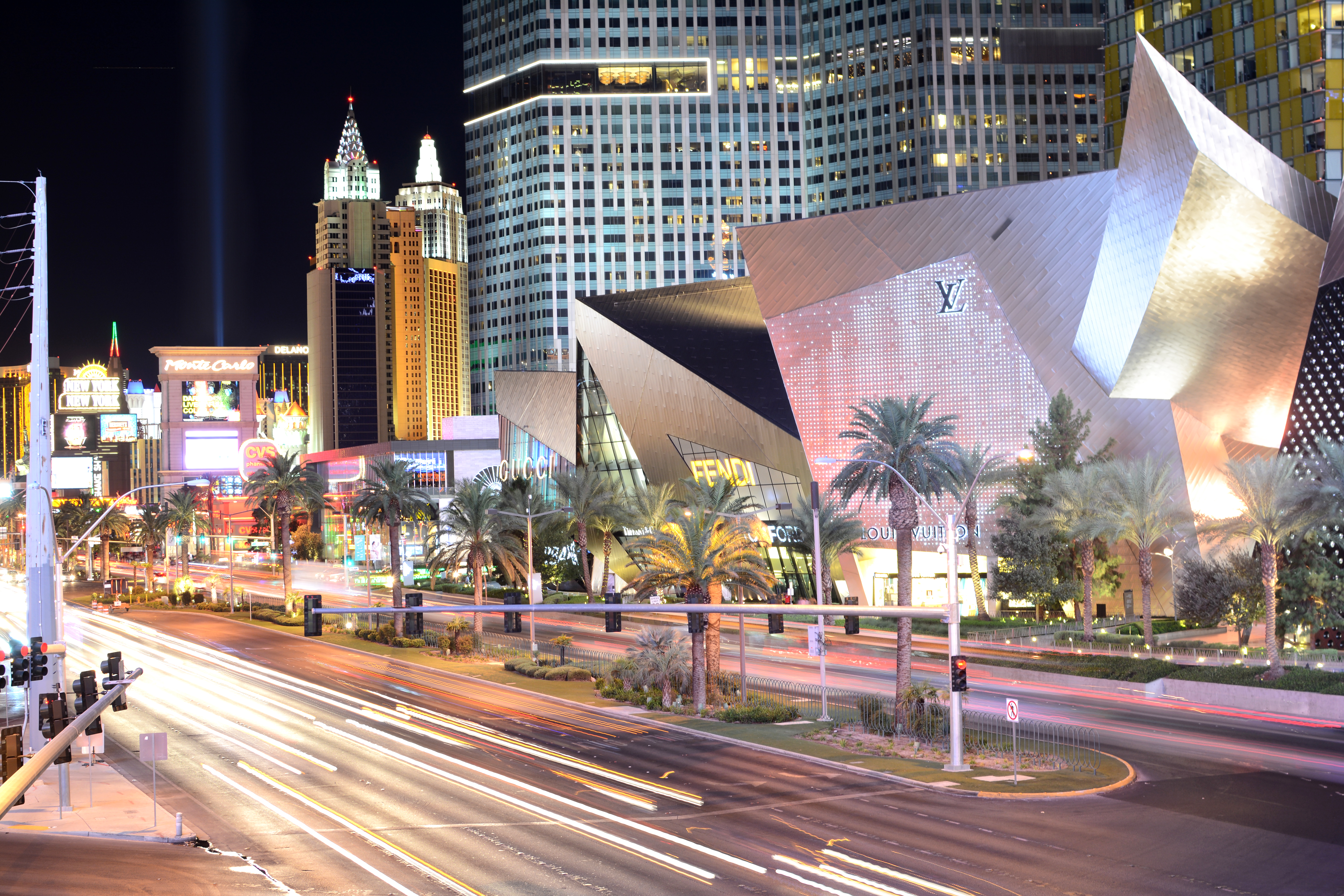 Las Vegas, United States